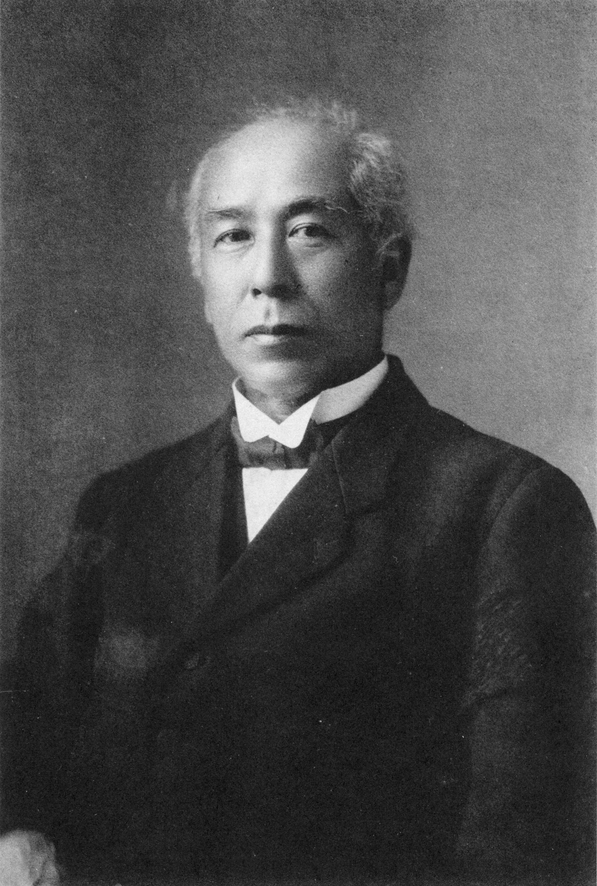 Miyazaki Michisaburo.